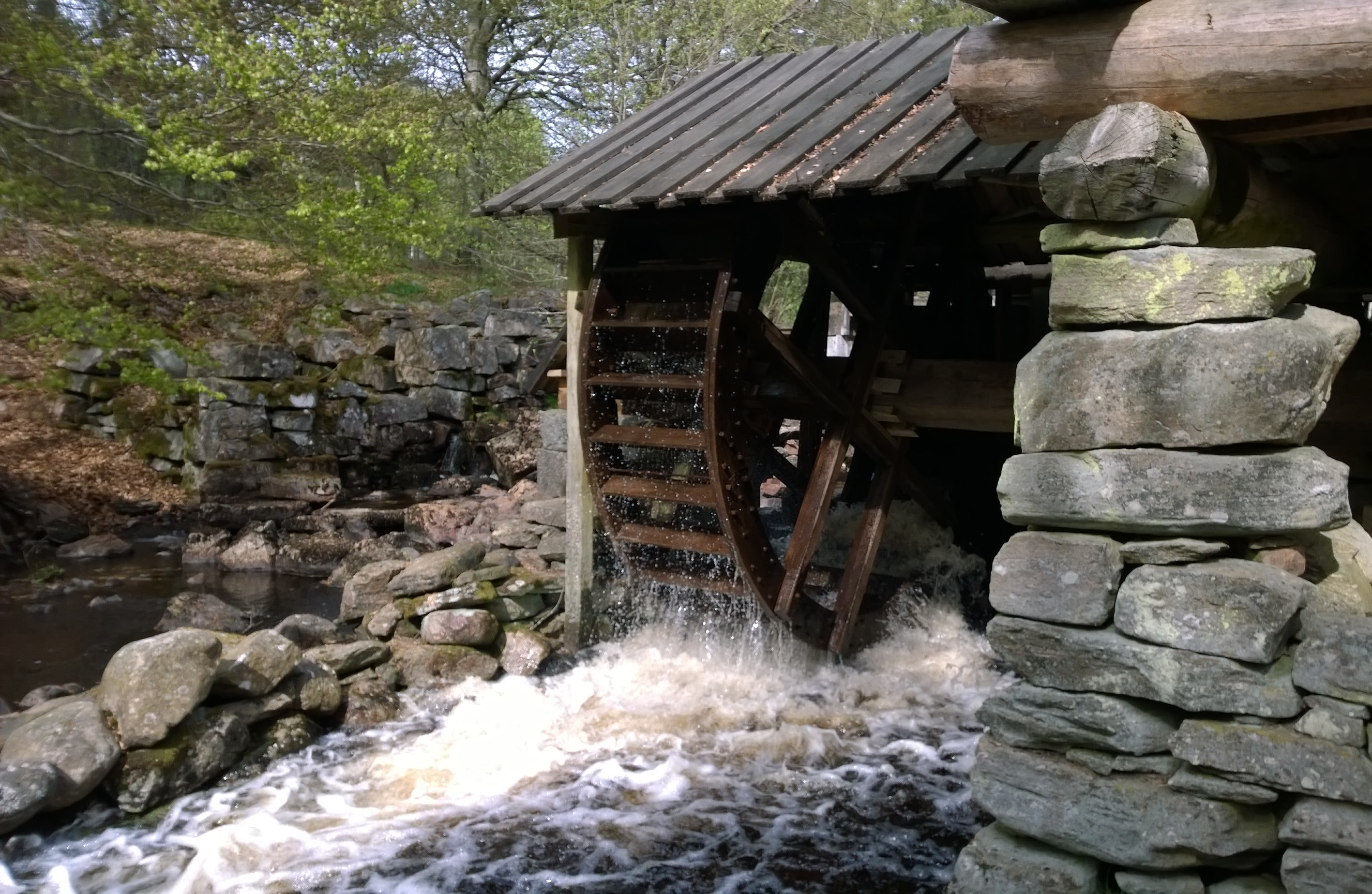 The large wheel operates the millstone.